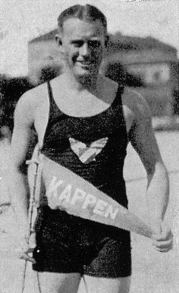 American-norwegian swimmer (olympics, 1920) Alfred Steen. He represented Kristiania Kapsvømnings Klub (K.K.K.), nicknamed "Kappen". Photo from between 1919 and 1924 (his active years with KKK, before returning to US in 1925).